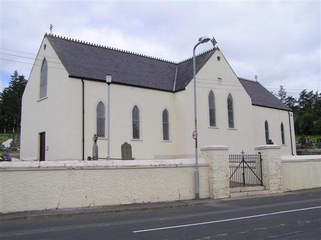 St Mary's RC Church, Rousky. It is at the centre of the Hamlet